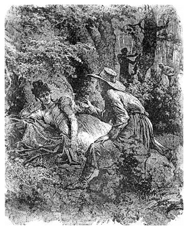 Illustration of Pan Tadeusz, Book 3